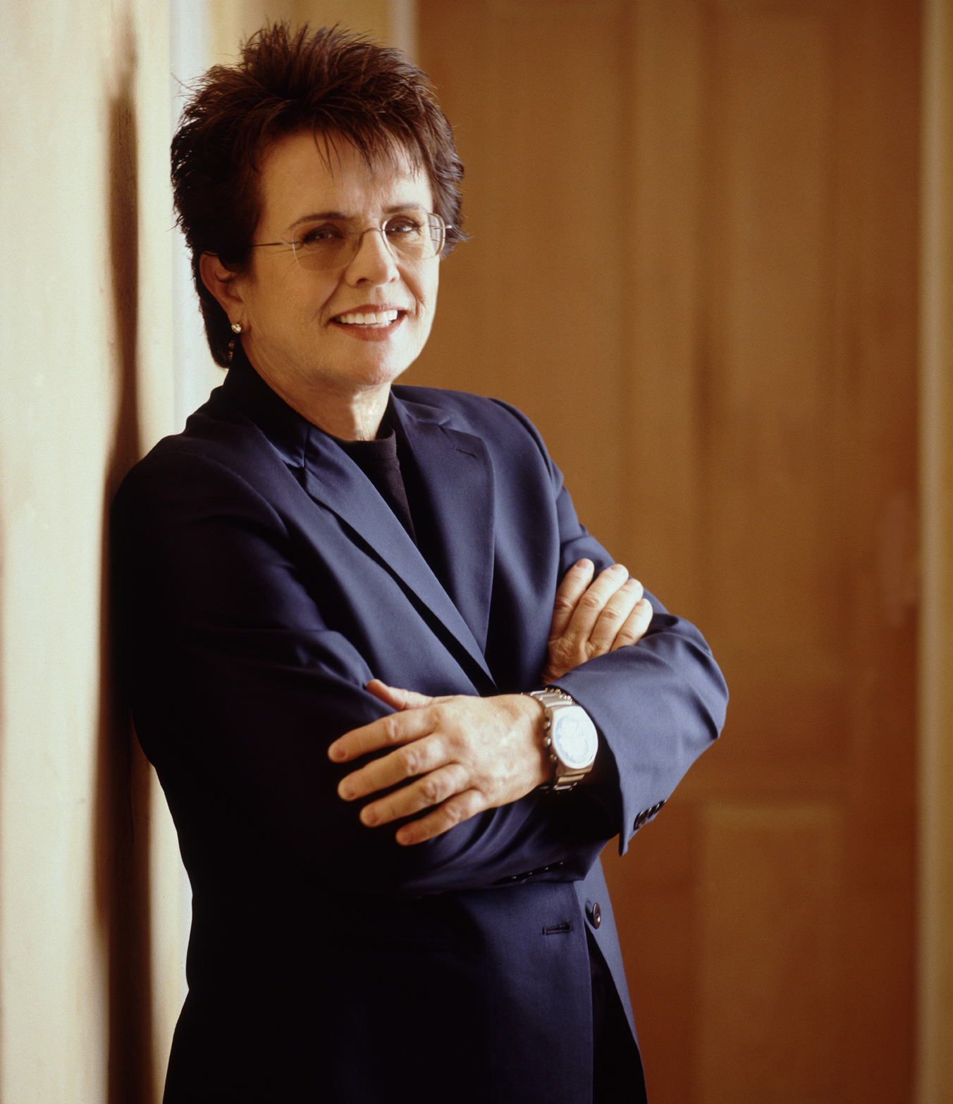 Photo of Billie Jean King